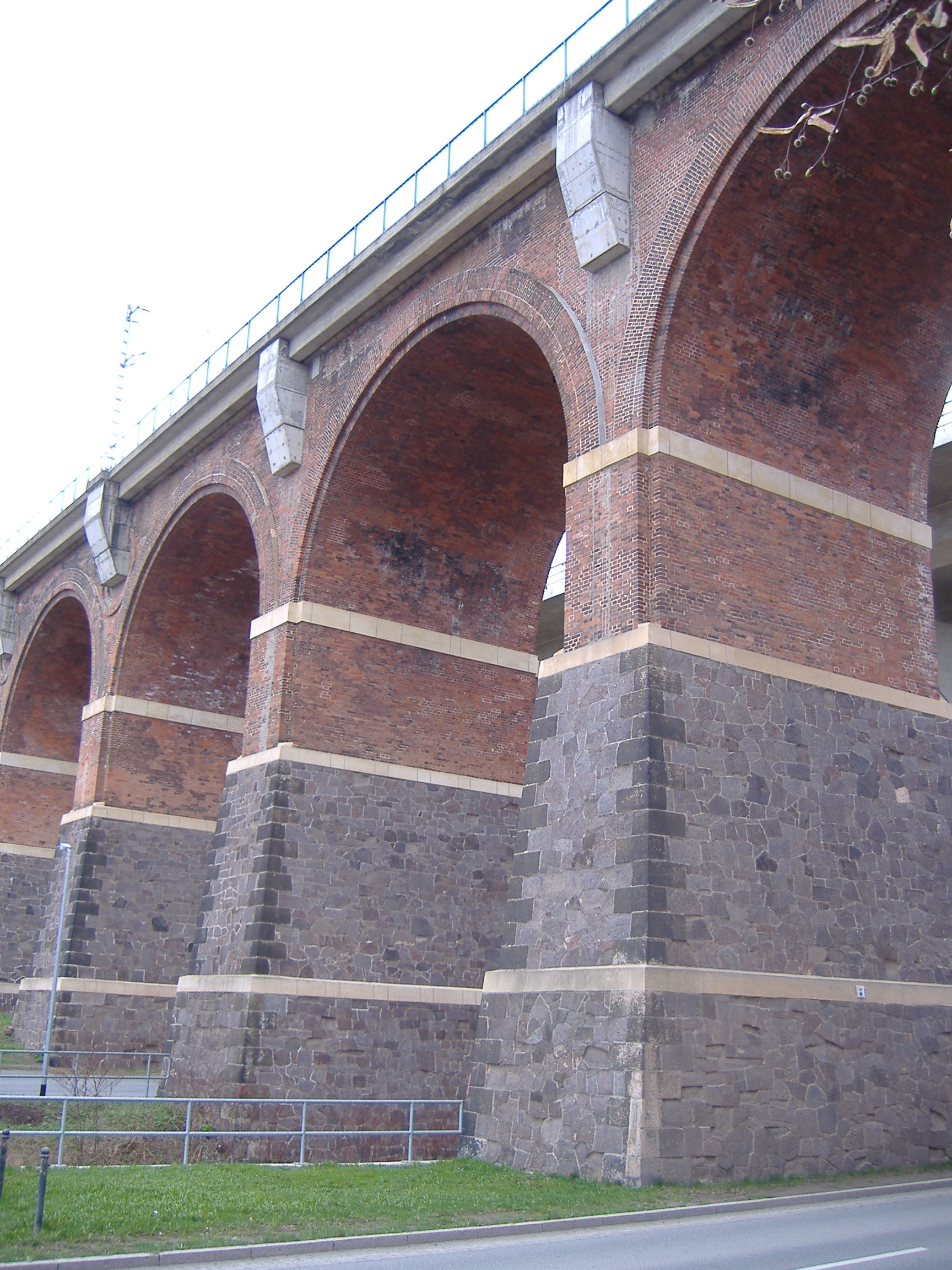 trainbridge in Leubnitz (Saxony, Germany)